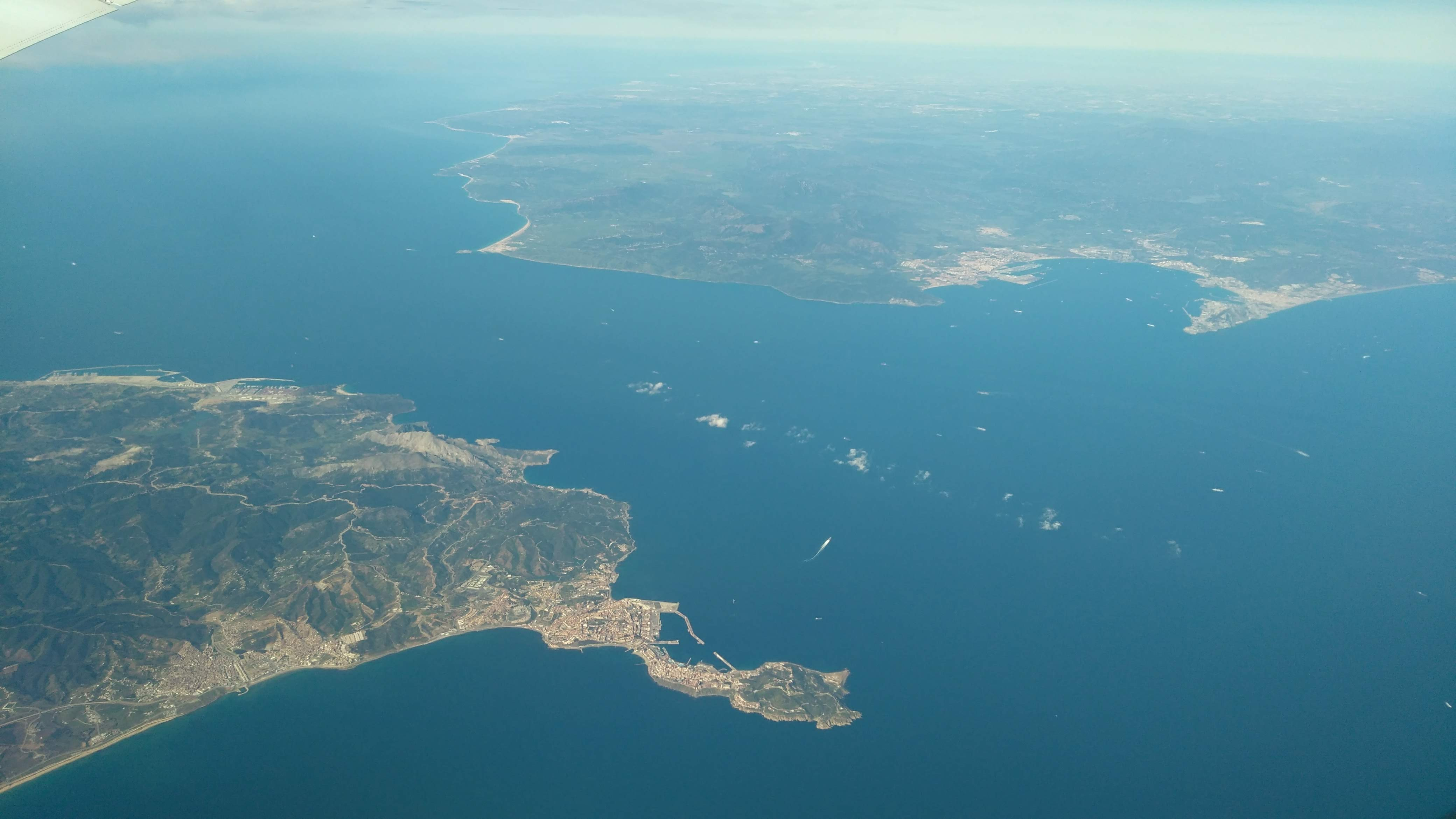 This is the Strait of Gibraltar, seen from a plane flying southwest of the strait. Europe with Gibraltar, Algeciras and Tarifa is on the top right, Africa with Ceuta and Morocco on the bottom left.